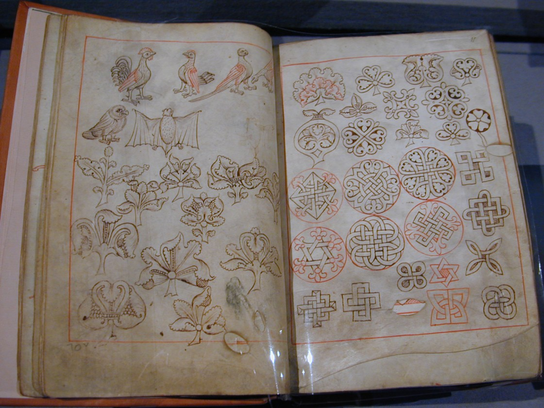 Double page of the Reiner Musterbuch (Rein pattern book), early 13th Century. Owned by the Natinal Library of Austria since 16th century.